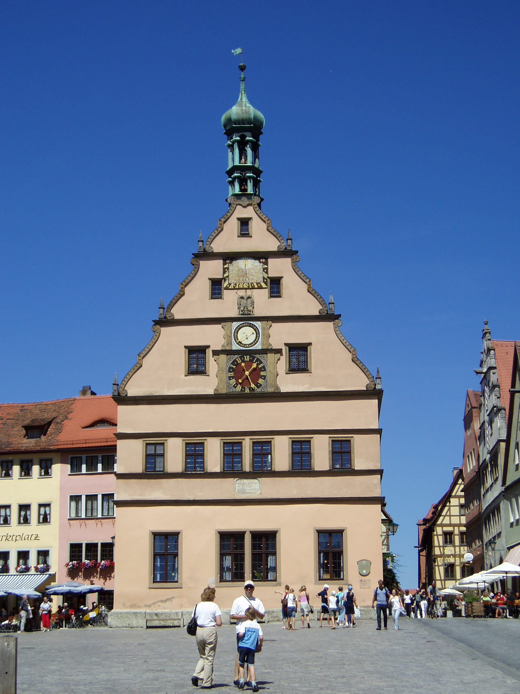 Rotenburgclocktower